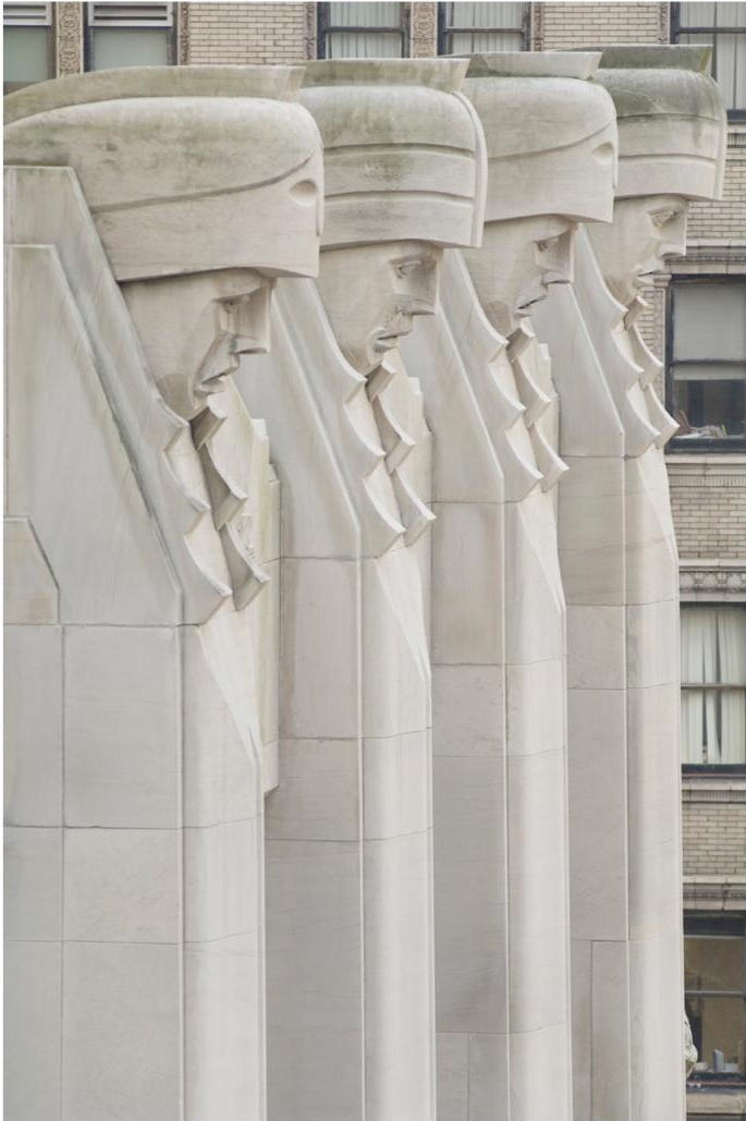 20 Exchange Place exterior